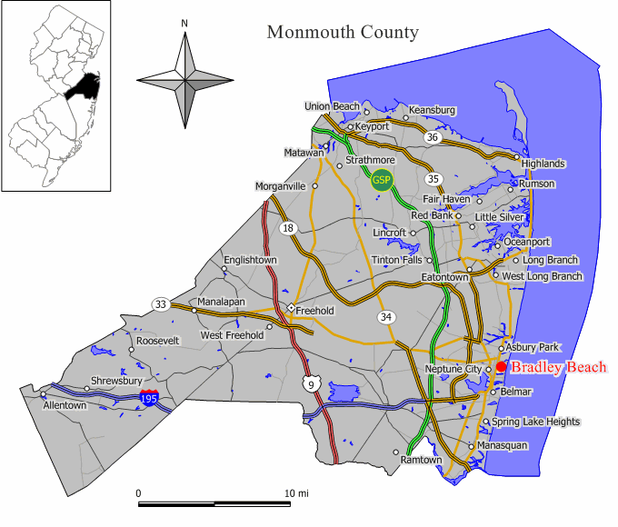 Source: Jim Irwin